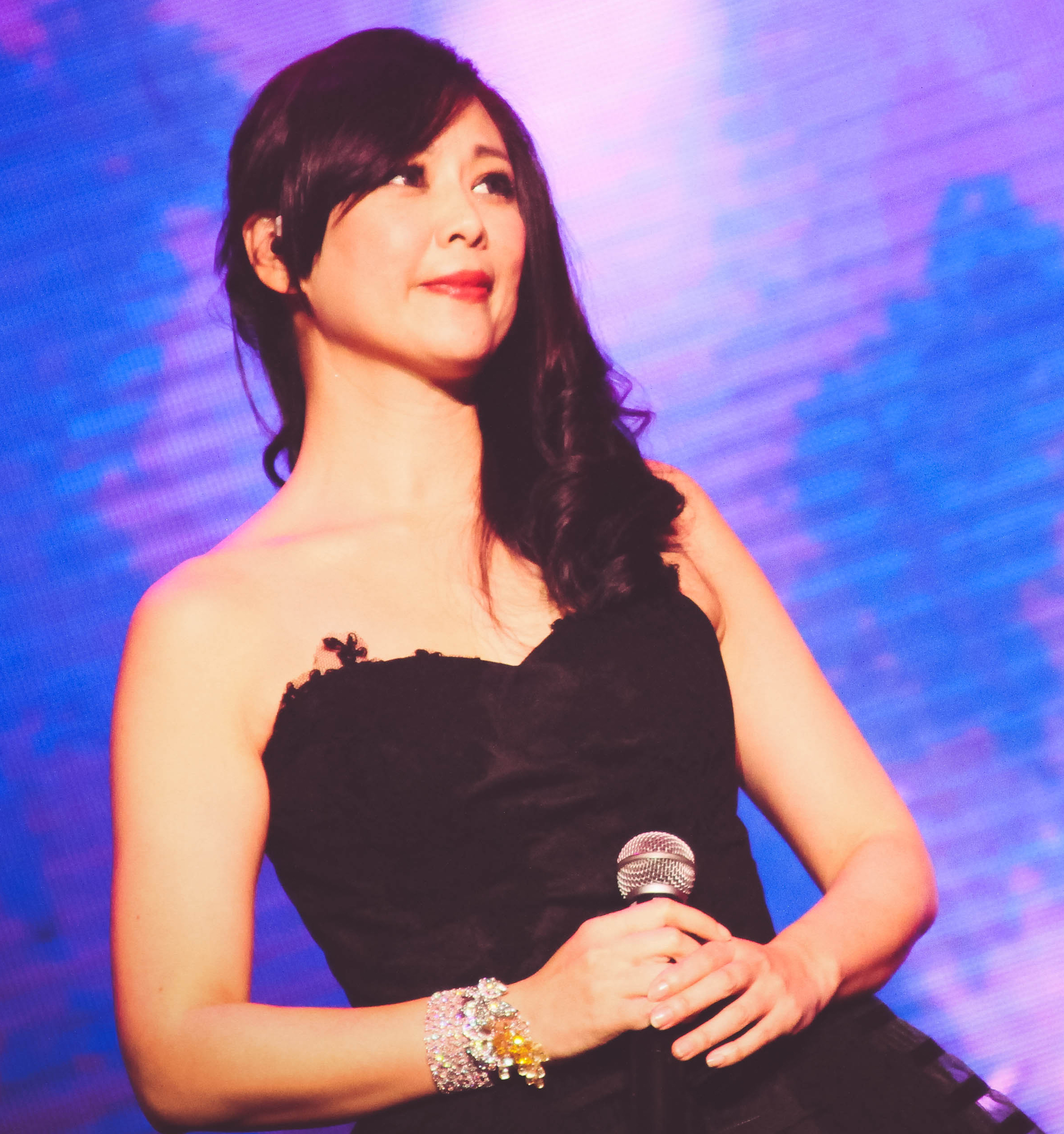 Linda Wong at the PolyGram Forever Live Concert in Singapore, 2014